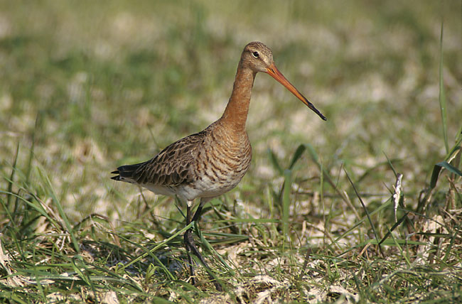 Black-tailed Godwit